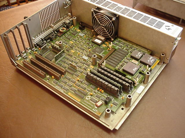 Internal design of the IBM PS/2 Model 70, showing the bare motherboard (or planar as IBM liked to call it), with the 72-pin memory SIMMs and the CPU daughterboard. IBM designed the model 70 to have an upgradeable CPU, and the system could accept both the 386 and the 486 CPU just by changing the carrying dautherboard for the processor. The power supply was further optimized in the model 70 to eliminate all power cables completely. Instead it plugs directly into the motherboard with a multi-pin plug in the side of the power supply.